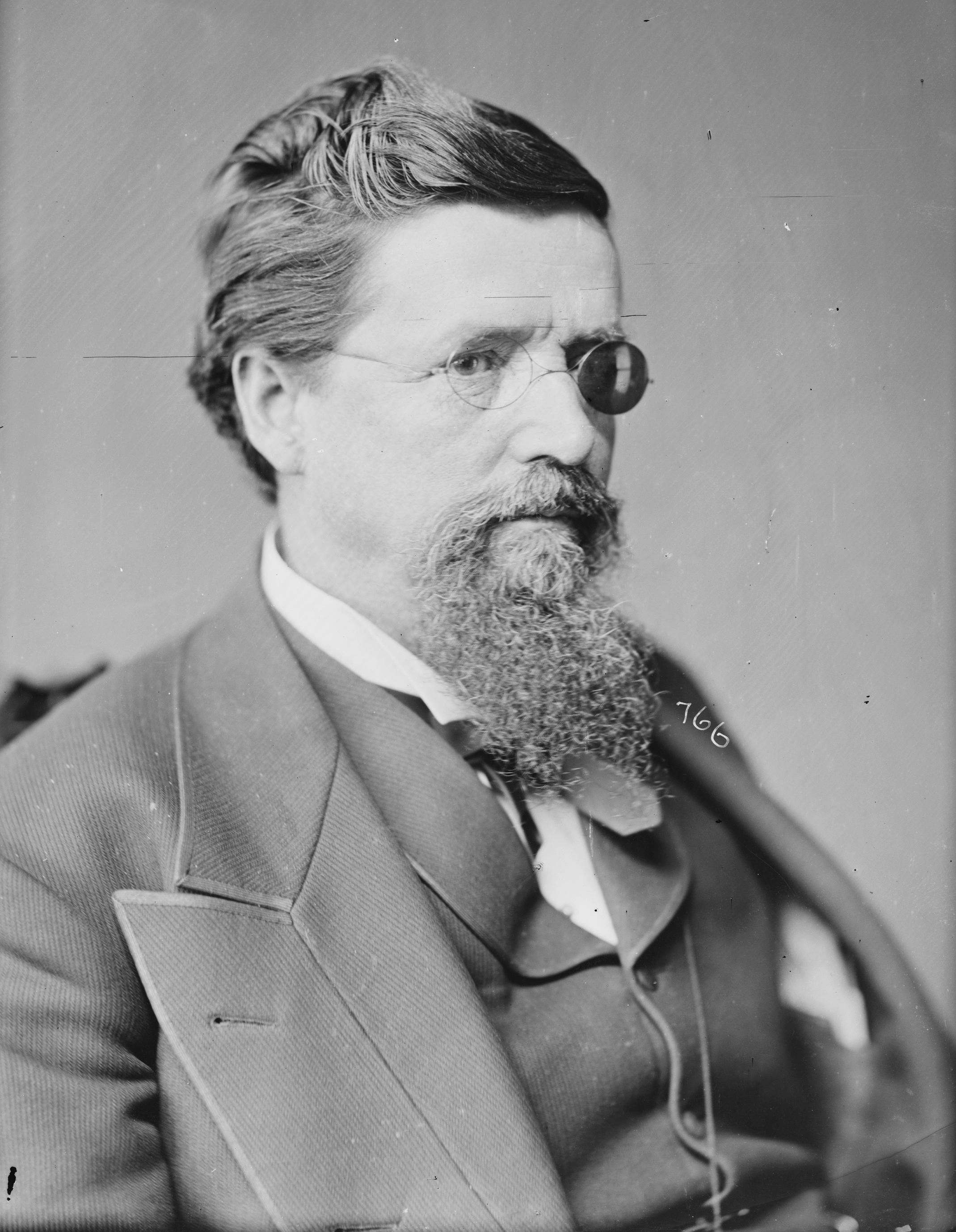 Frank Hereford. Library of Congress description: "Hereford, Hon. Frank of W.VA, California forty-niner"